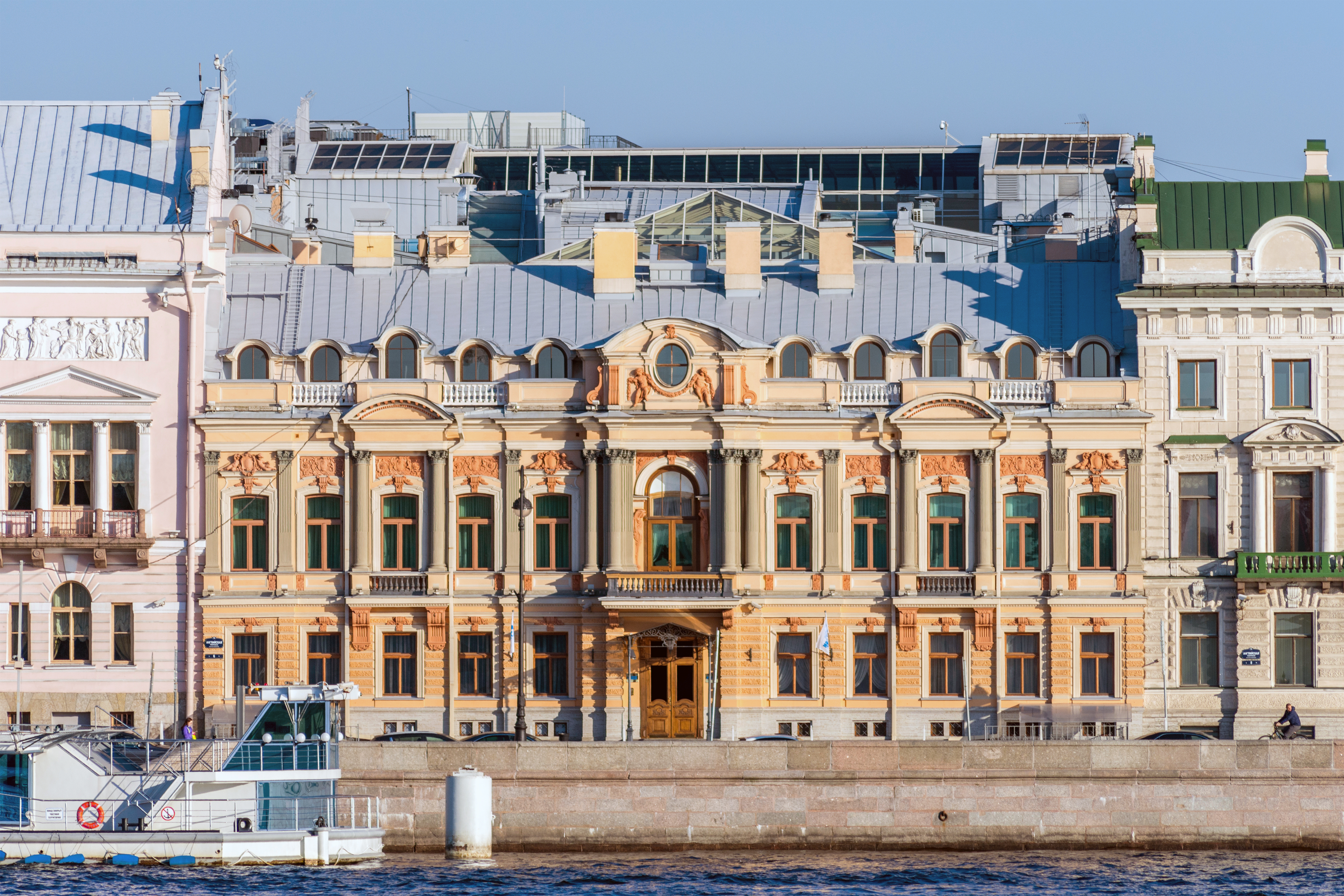 Angliyskaya Embankment in Saint Petersburg, Mansion of Kazalet